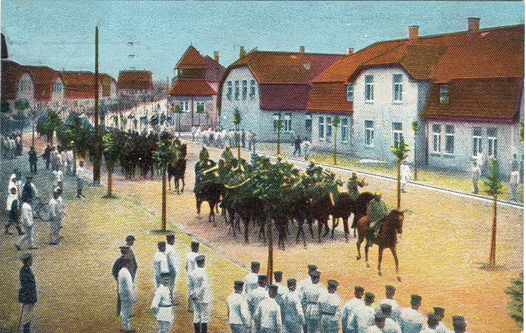 Postcard, dated 28.6.1921. Title: "Military training camp Ohrdruf ( Thuringia ) - Emperor´s street."